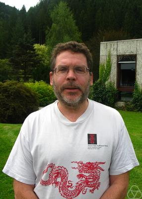 Shallit, Jeffrey Outlaw Occasion: Mini-Workshop: Combinatorics on Words, 2010 Location: Oberwolfach Author: Schmid, Renate (photos provided by Schmid, Renate) Source: MFO Year: 2010 Photo ID: 13118